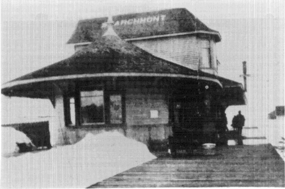 Searchmont station, between 1911-1929.